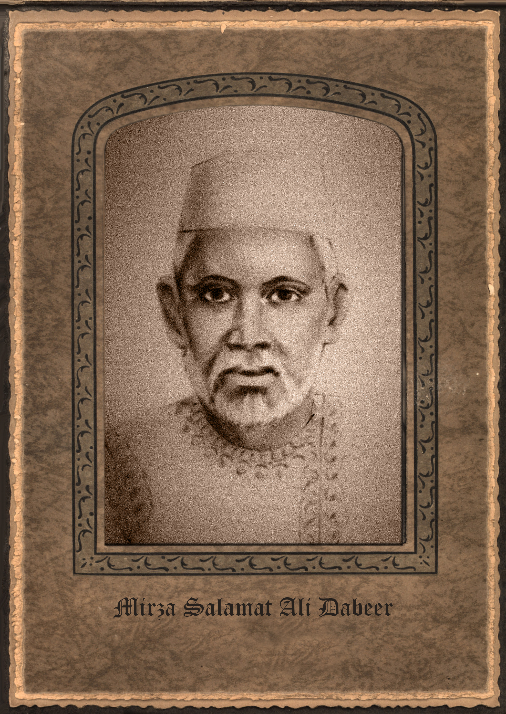 Sketch of Mirza Salamat Ali Dabeer of Lucnow.This Sketch is mde by a Spanish artist on the Las Rambla in Barcelona,Spain